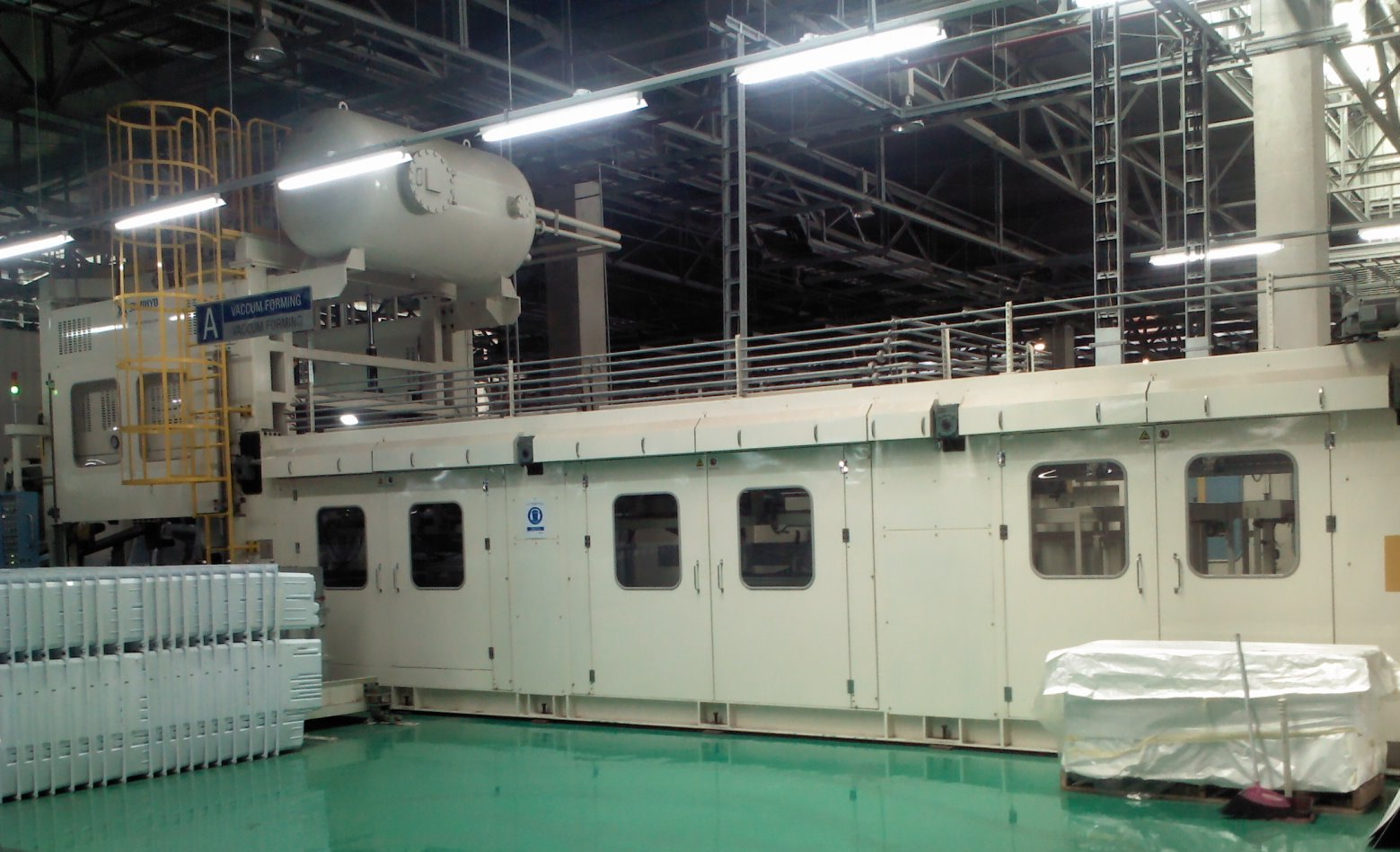 This is vacuum forming machine to produce inner liner/food liner of refrigerator. On the front-left is the products.